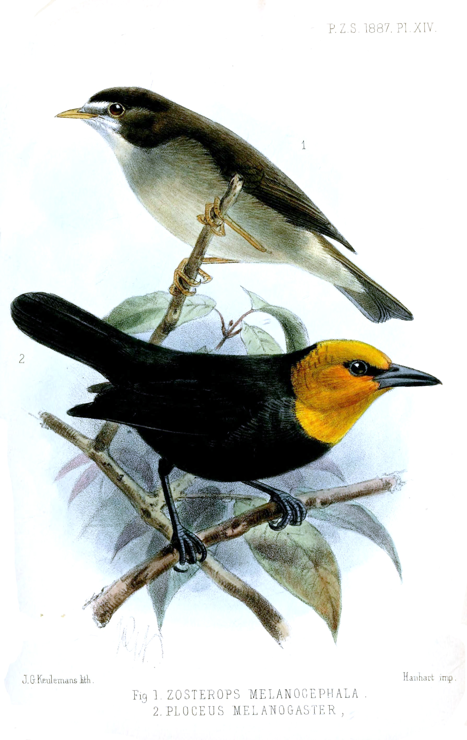 Mount Cameroon Speirops, adult adult female (above); Black-billed Weaver, male (below)